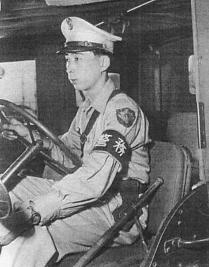 NSF(National Safety Force of Japan) Military Policeman